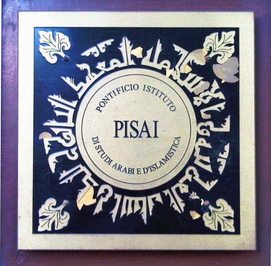 Pontifical Institute of Arab and Islamic Studies (PISAI), Headquarter entrance-plate, Viale di Trastevere 89, 00153 Roma/IT